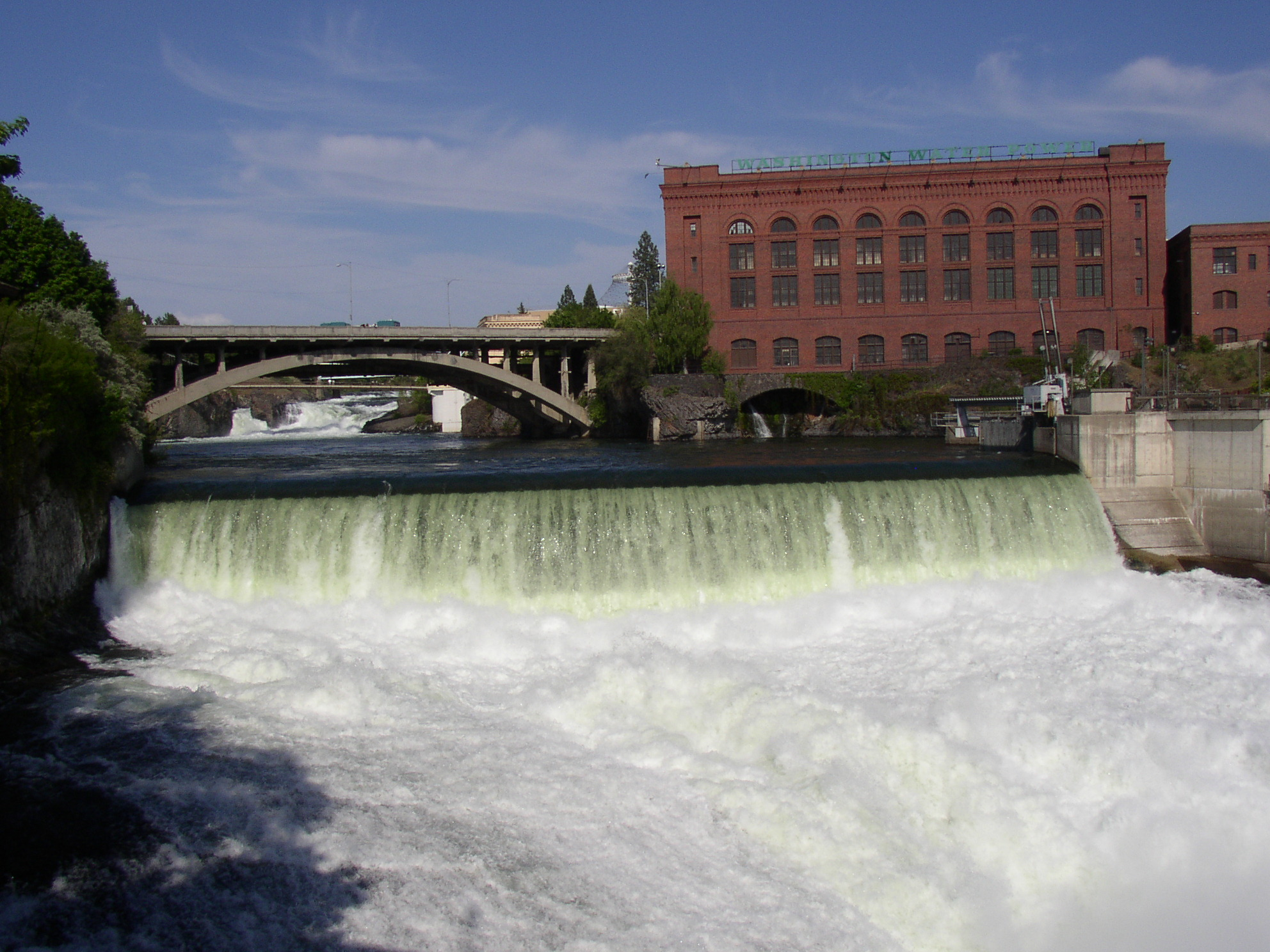 Monroe Street Dam on Spokane Falls of the Spokane River in the city of Spokane, Washington. Photo taken in May 2007 by uploader specifically for use on Wikipedia. All rights released. Williamborg 04:08, 13 May 2007 (UTC)